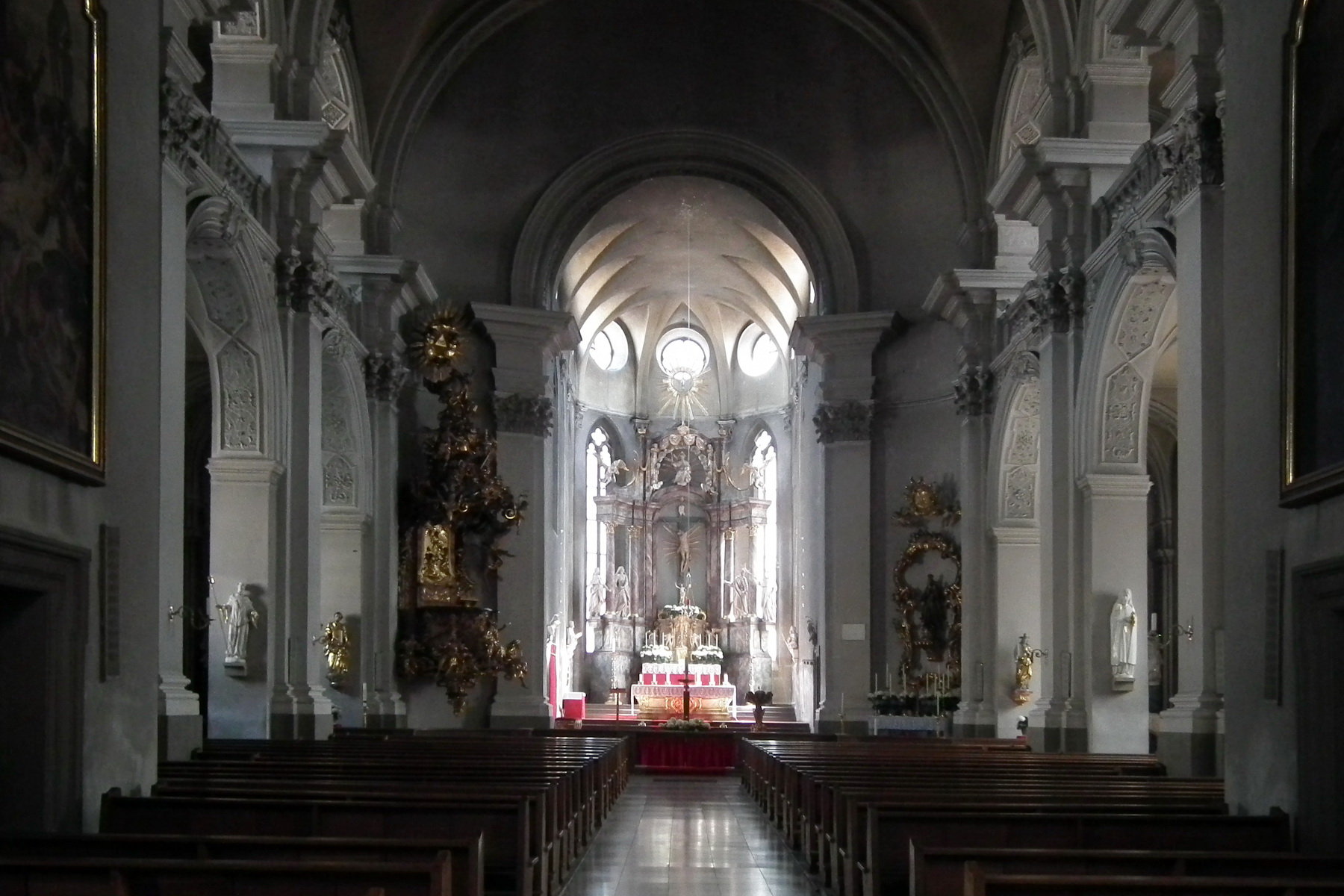 St. Peter und Paul (Würzburg) Native nameSt. Peter und PaulLocationWürzburg, Lower Franconia, GermanyCoordinates49° 47′ 20.75″ N, 9° 55′ 56.99″ E Established1720 Authority control : Q1191343 institution QS:P195,Q1191343